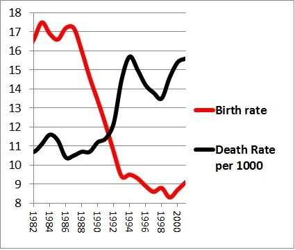 Russian Cross: Death and Birth Rate Curves (per 1000), Russia, 1982-2001